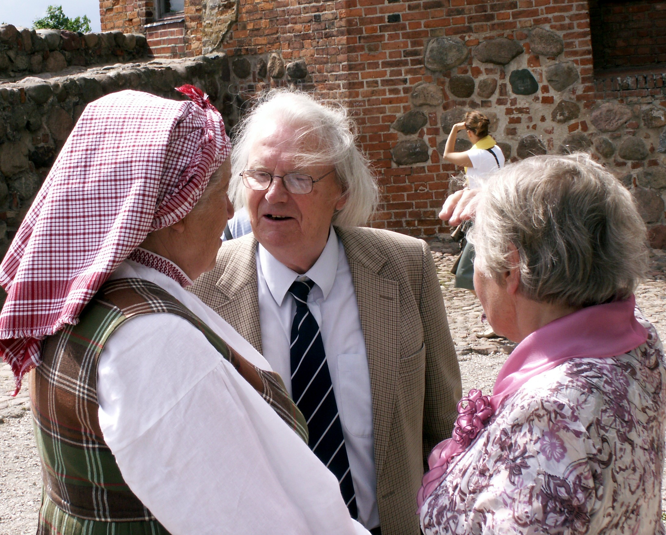 Povilas Mataitis, folk artist of Lithuania